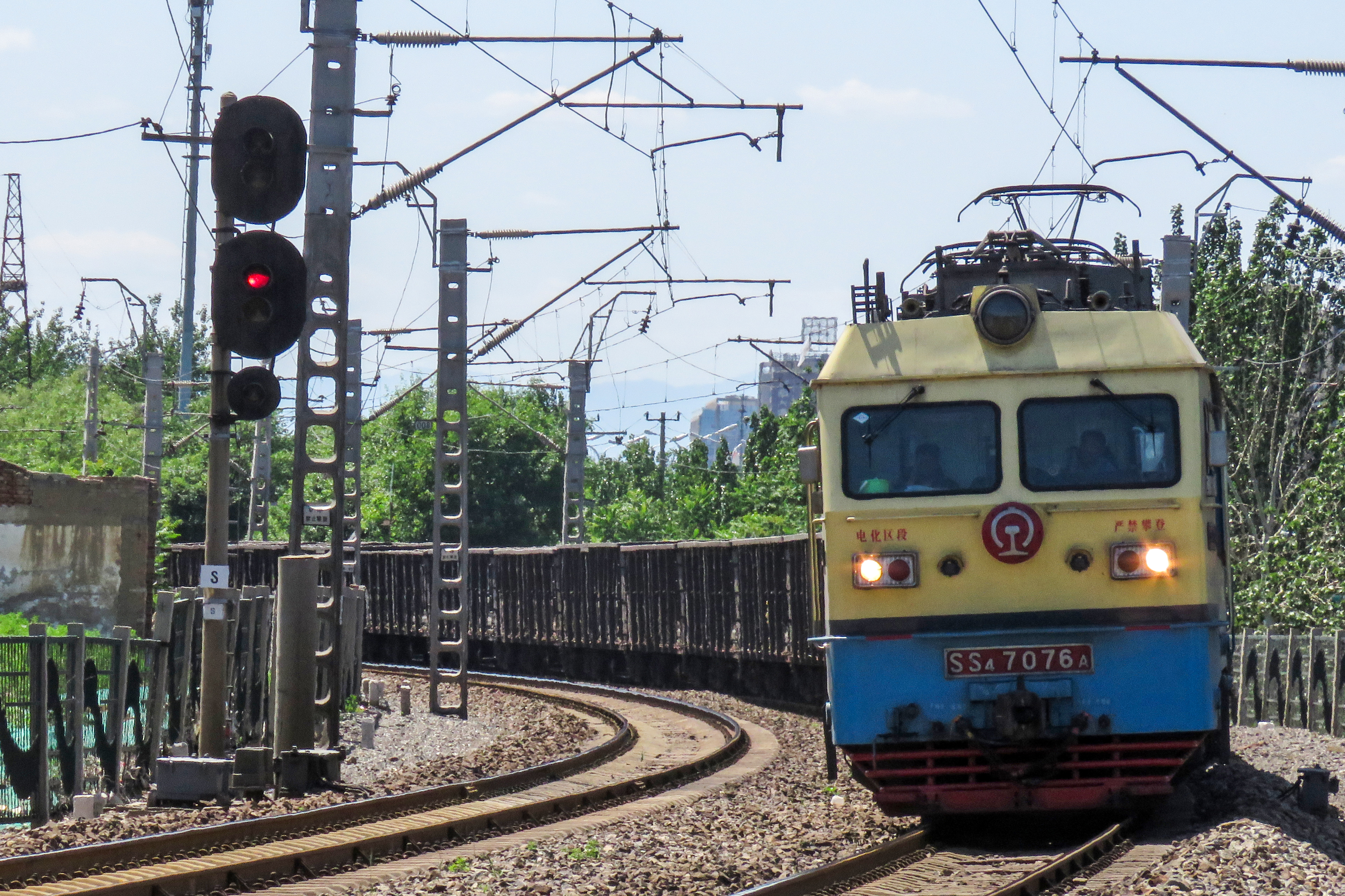 First spotting at Fengtai-Shuangqiao Railway. The heat wave is disturbing...